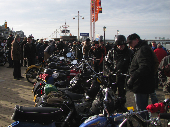 Part of the Kouwe Klauwe Puch and Tomos moped meeting in Scheveningen.